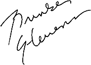 This is a scan of the actress's autograph given personally to me.